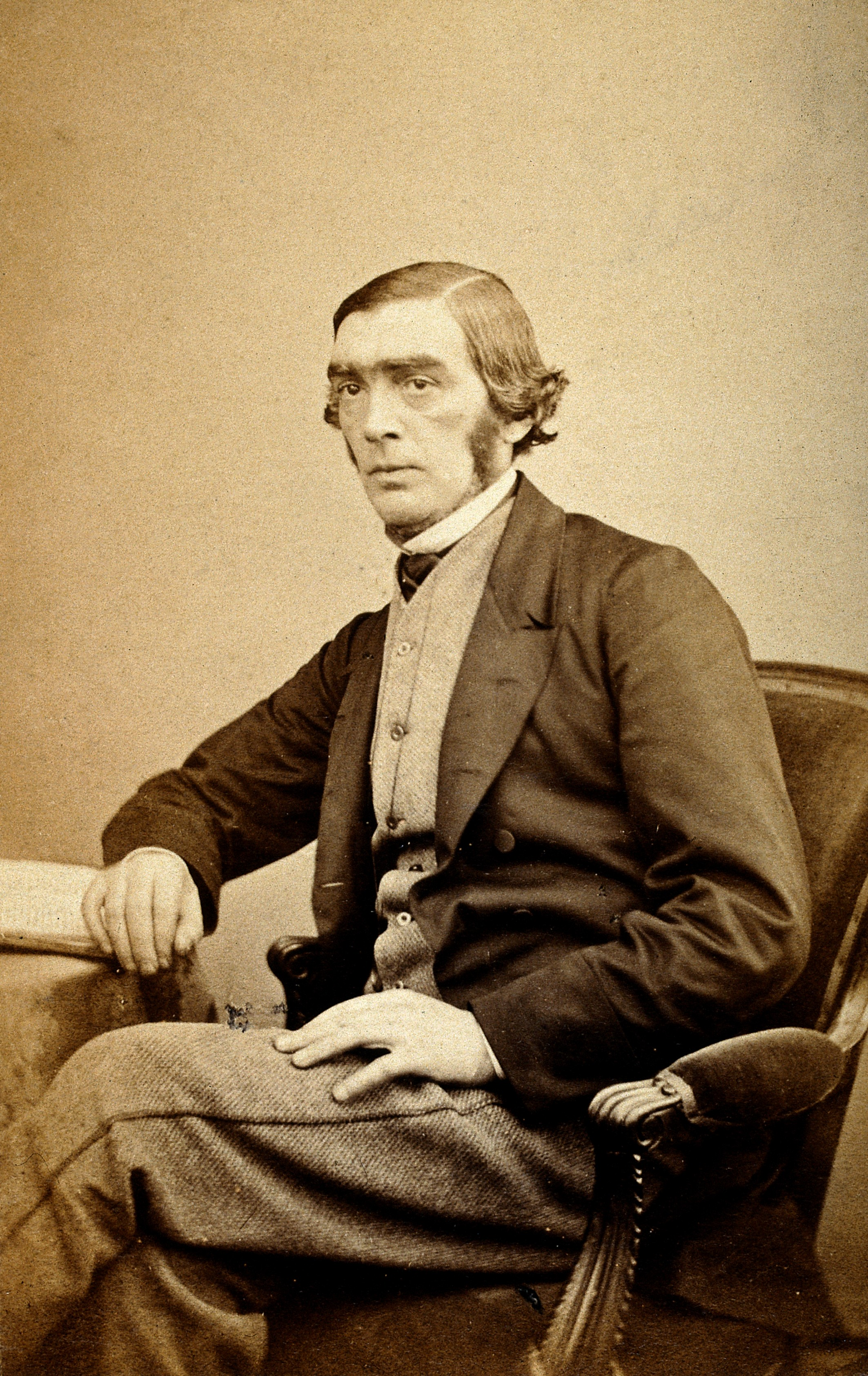 John Russell Hind. Photograph by Maull & Polyblank. Iconographic Collections Keywords: portrait photographs